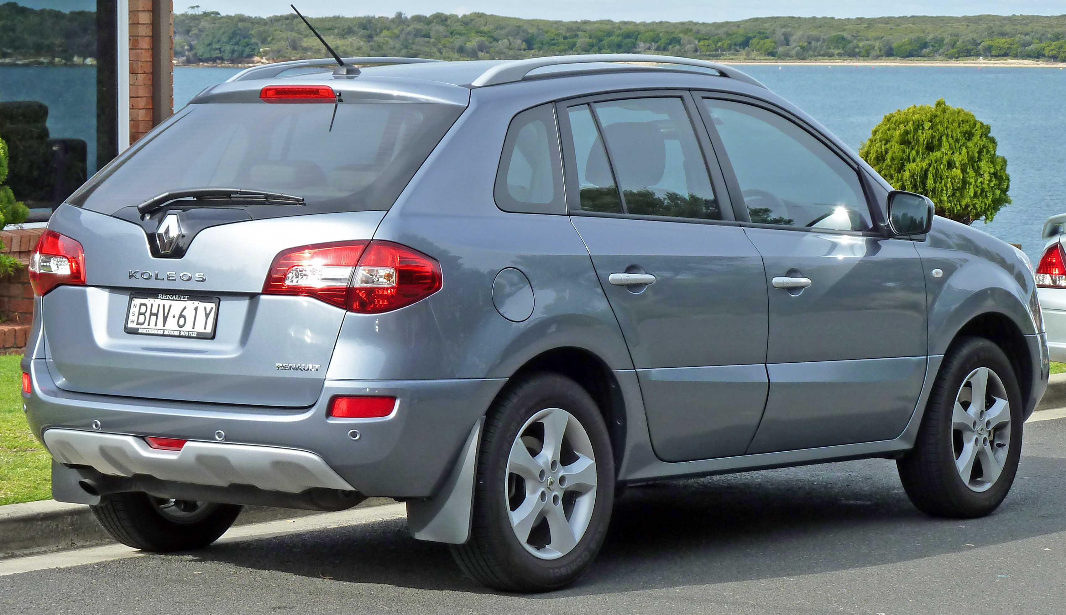 2009 Renault Koleos (H45) Privilege 2.5 4WD wagon. Photographed in Cronulla, New South Wales, Australia.